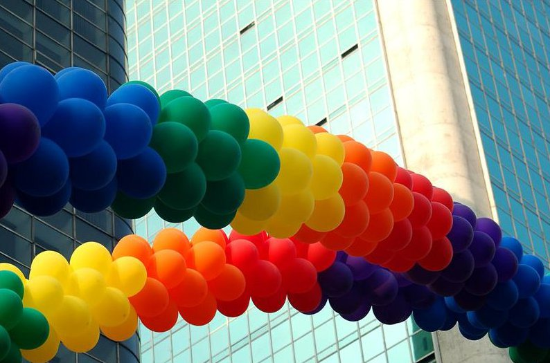 Decorative arches made of rainbow-coloured party balloons at an event called the Parada Gay 2006 in São Paulo, Brazil.